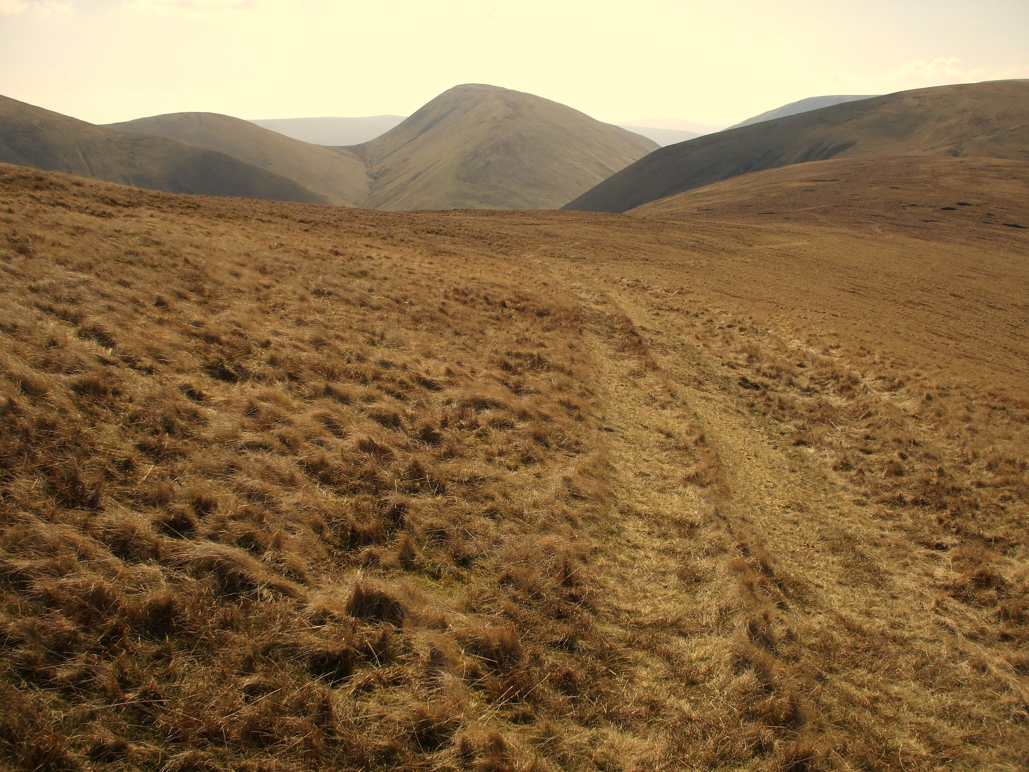 Yarlside & Kensgriff View from West Fell, over Bowderdale to Yarlside (639m) and Kensgriff (574m).